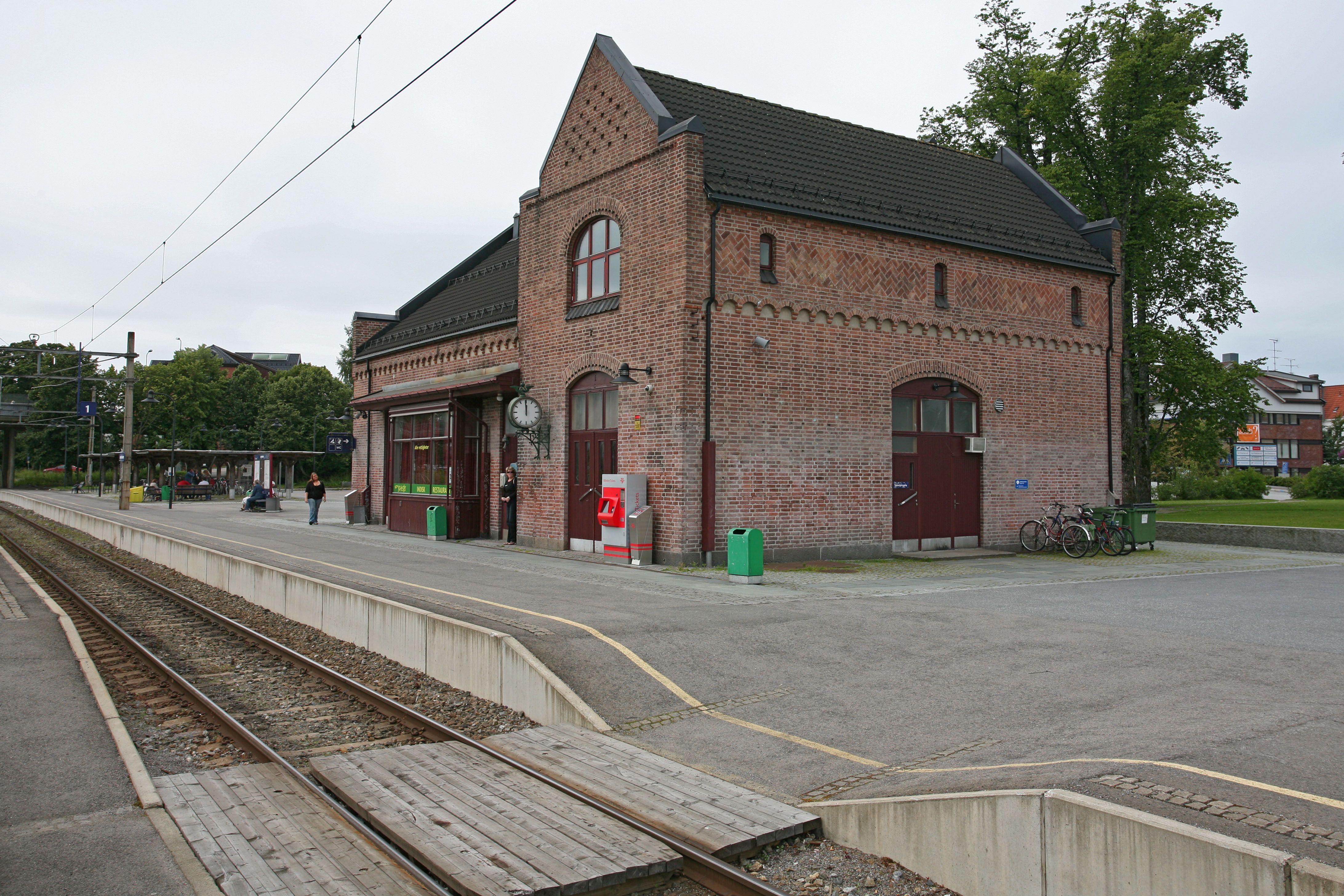 Picture of Jessheim Railway Station (Norway)